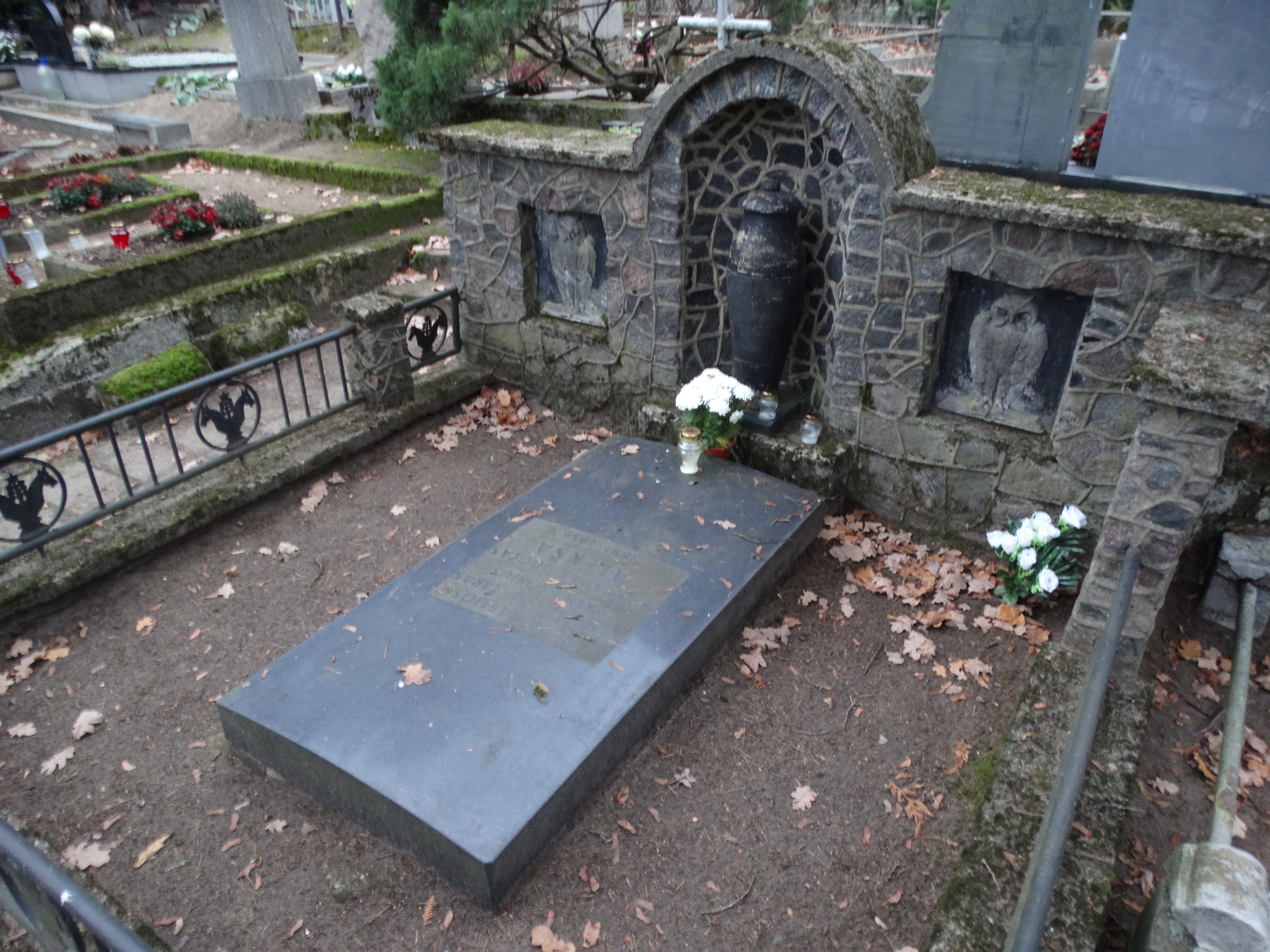 Tomb of Konradas Juozas Aleksa, Eiguliai cemetery, Lithuania